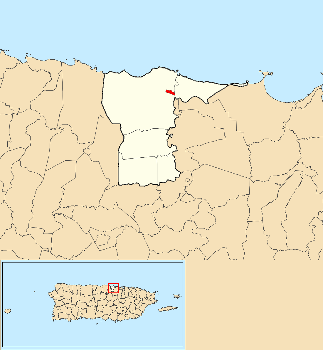 Dorado barrio-pueblo, Dorado, Puerto Rico locator map